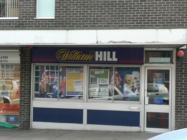 William Hill, Bookmakers, 9 North Lane, Headingley. Near the junction with Otley Road. Traffic queuing at the traffic lights is reflected in the windows.